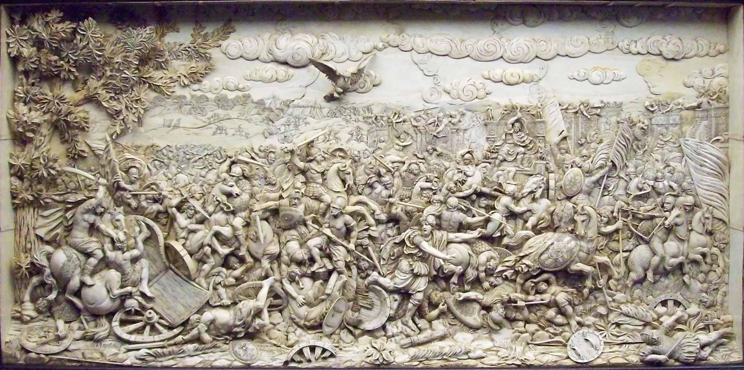 Relief inspired by Charles Le Brun's painting Battle of Arbela (1669).